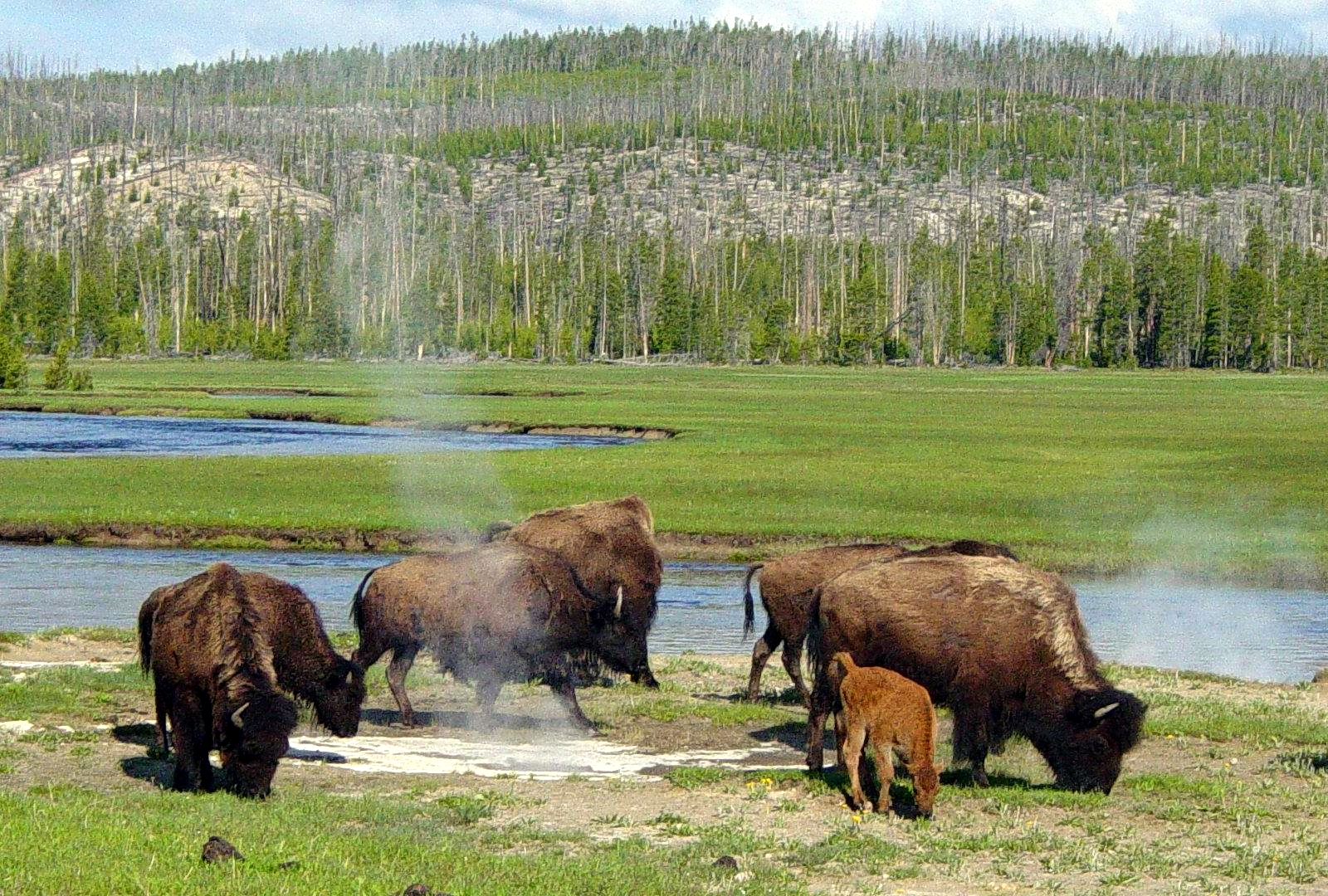 Photo taken in the Yellowstone area.